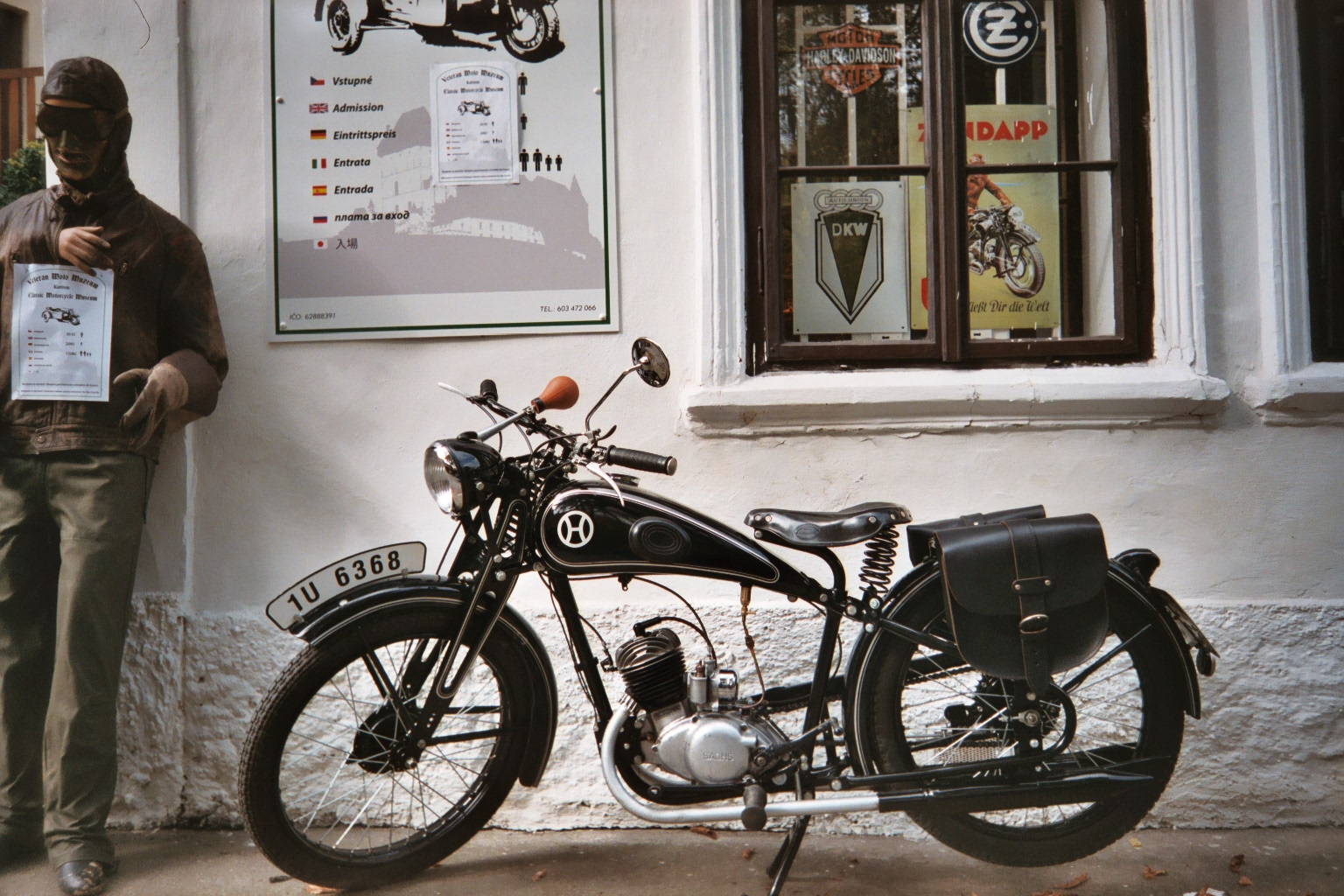 Czech Republic. Hercules S 125 of 1938-1943. Sachs 125 cc two-stroke engine, rated at 3.5 PS.